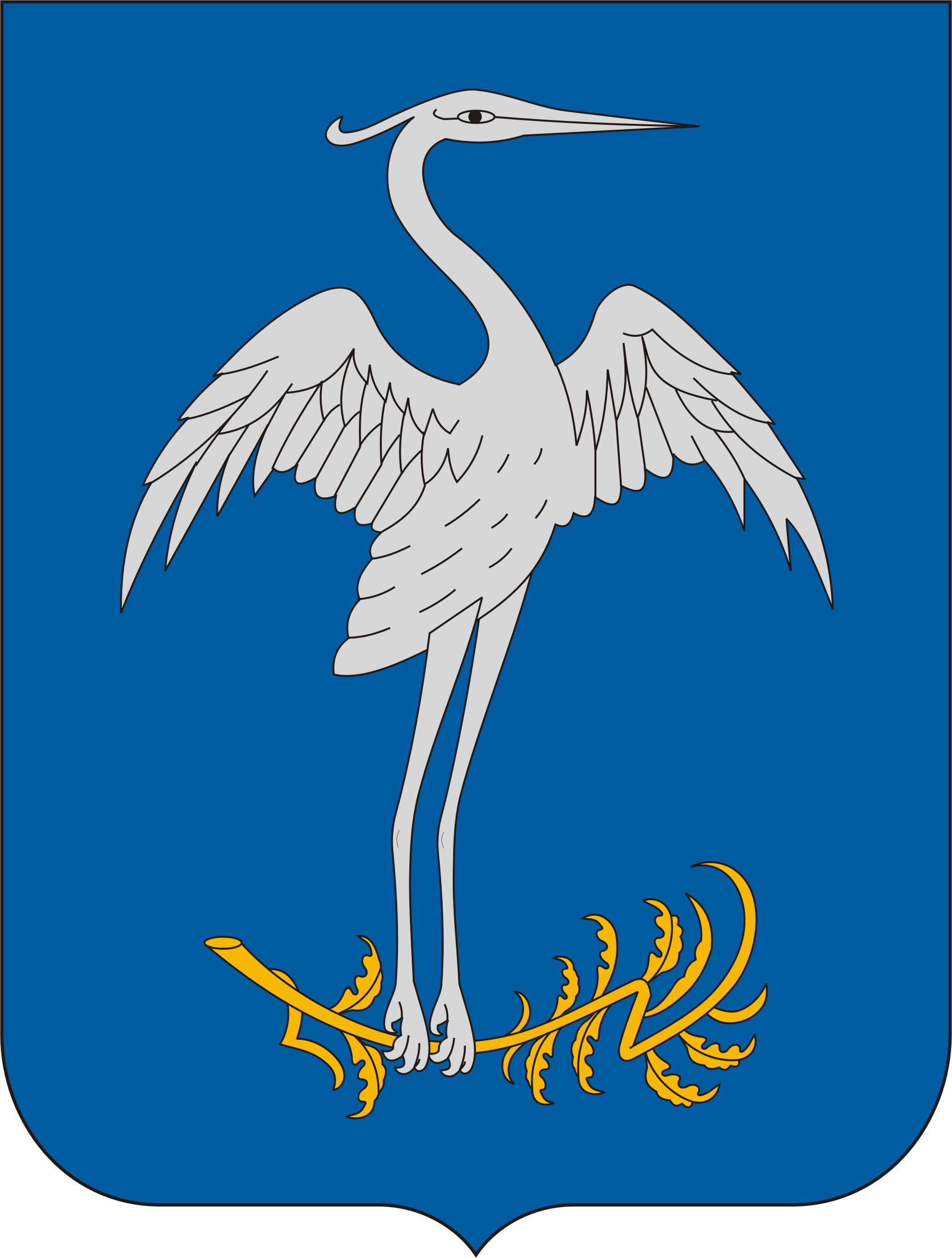 Coat of arms of Mezőgyán, Hungary